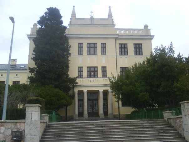 Entrance to fra Dominik Mandić classic gymnasium school in Široki Brijeg